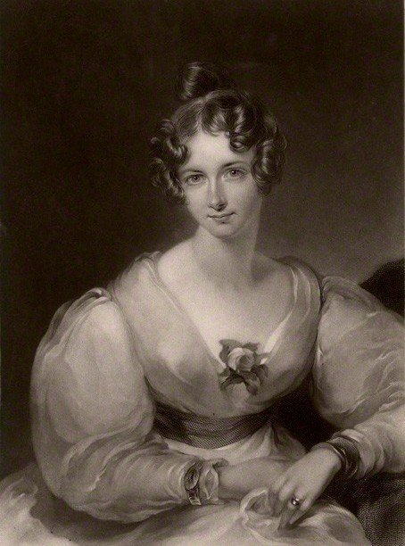 Lady (Maria) Theresa Lewis (née Villiers) by George Henry Phillips, after Gilbert Stuart Newton, mezzotint, published 1836